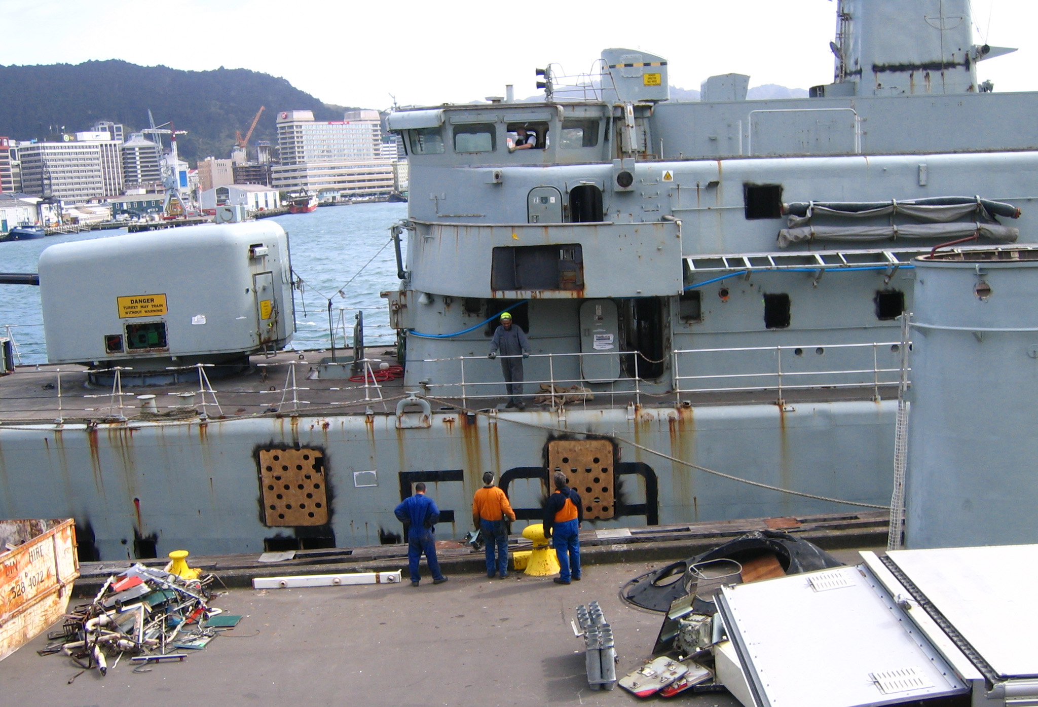 HMNZS Wellington being prepared for sinking as a dive wreck, Wellington, New Zealand.